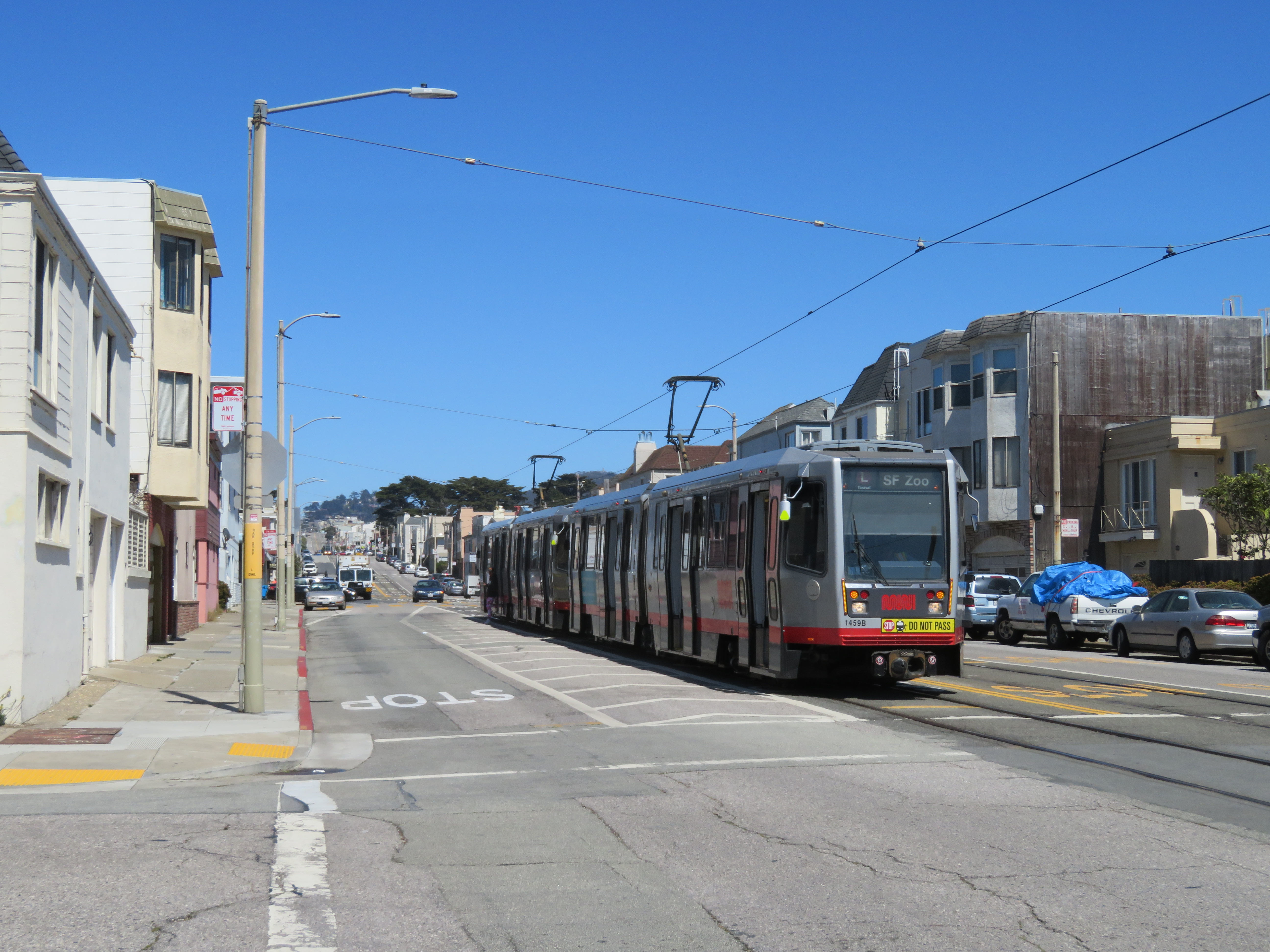 Outbound train at Taraval and 42nd Avenue in June 2018